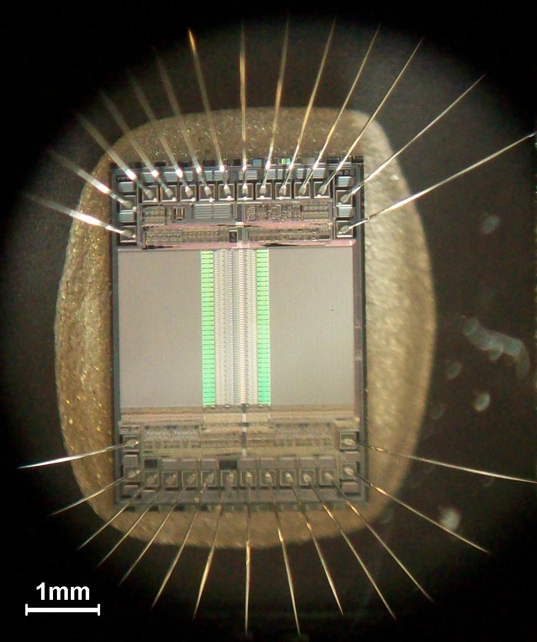 Chip of a 256k EPROM with aluminum bond wires. The grey area contains the storage cells, wich are too small to be seen